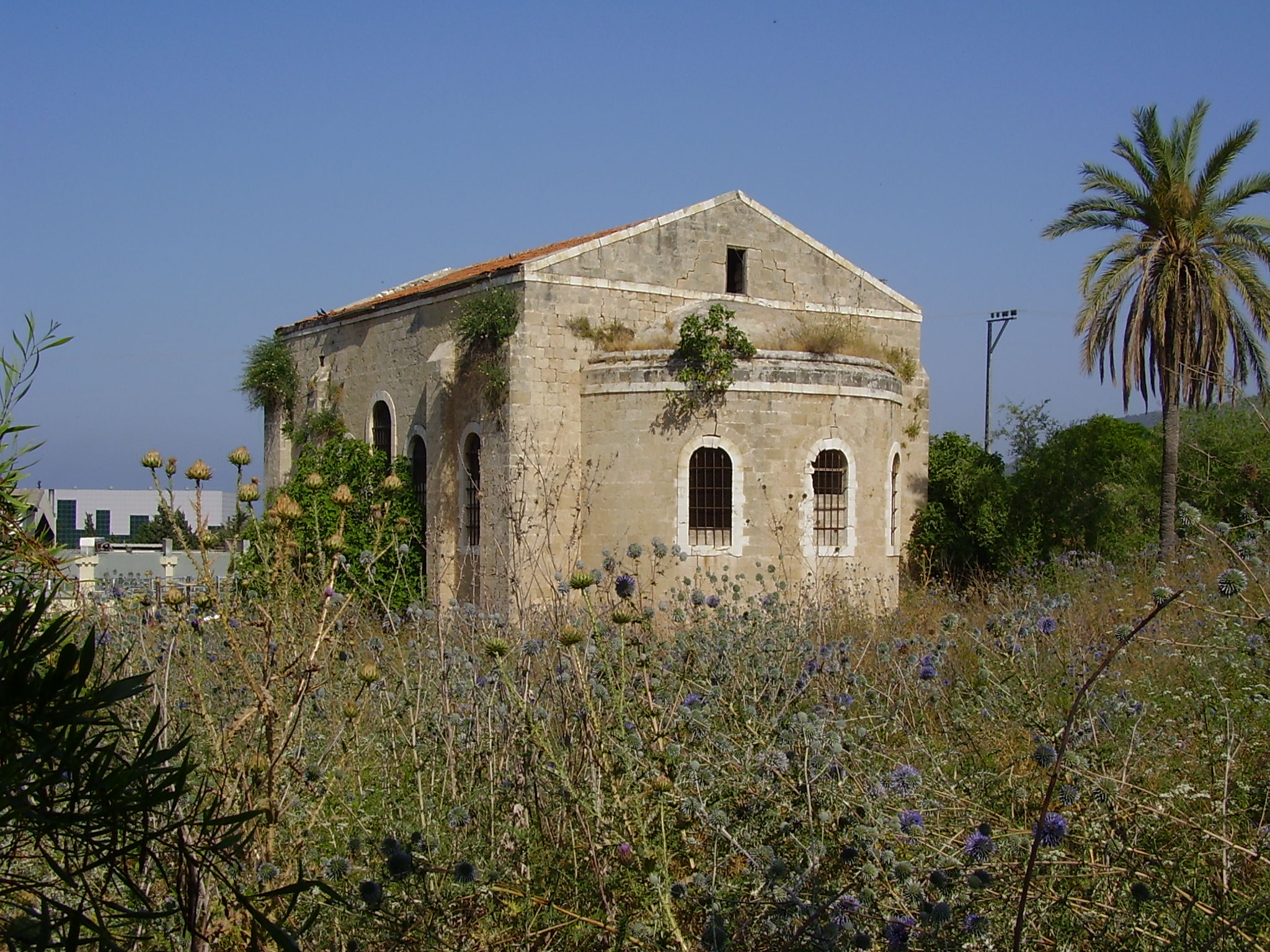 Bassa Roman Catholic Church, back side